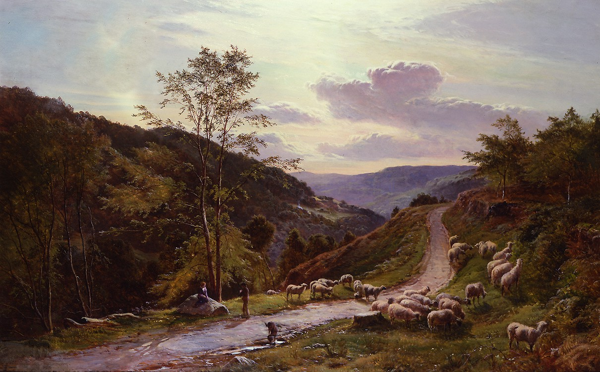 "Near Bettwys-y-Coed", Oil on canvas, 24 x 37 inches